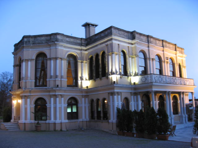 Malta Kiosk, or Malta Pavilion is located in Yıldız Park to the north side of the wall separating Yıldız Palace.